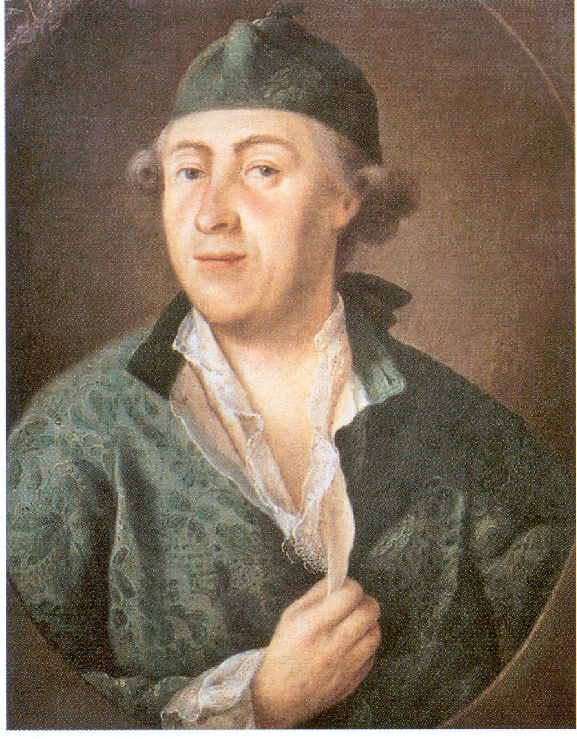 Portrait of Joseph Wenzel von Fürstenberg (1728-1783)